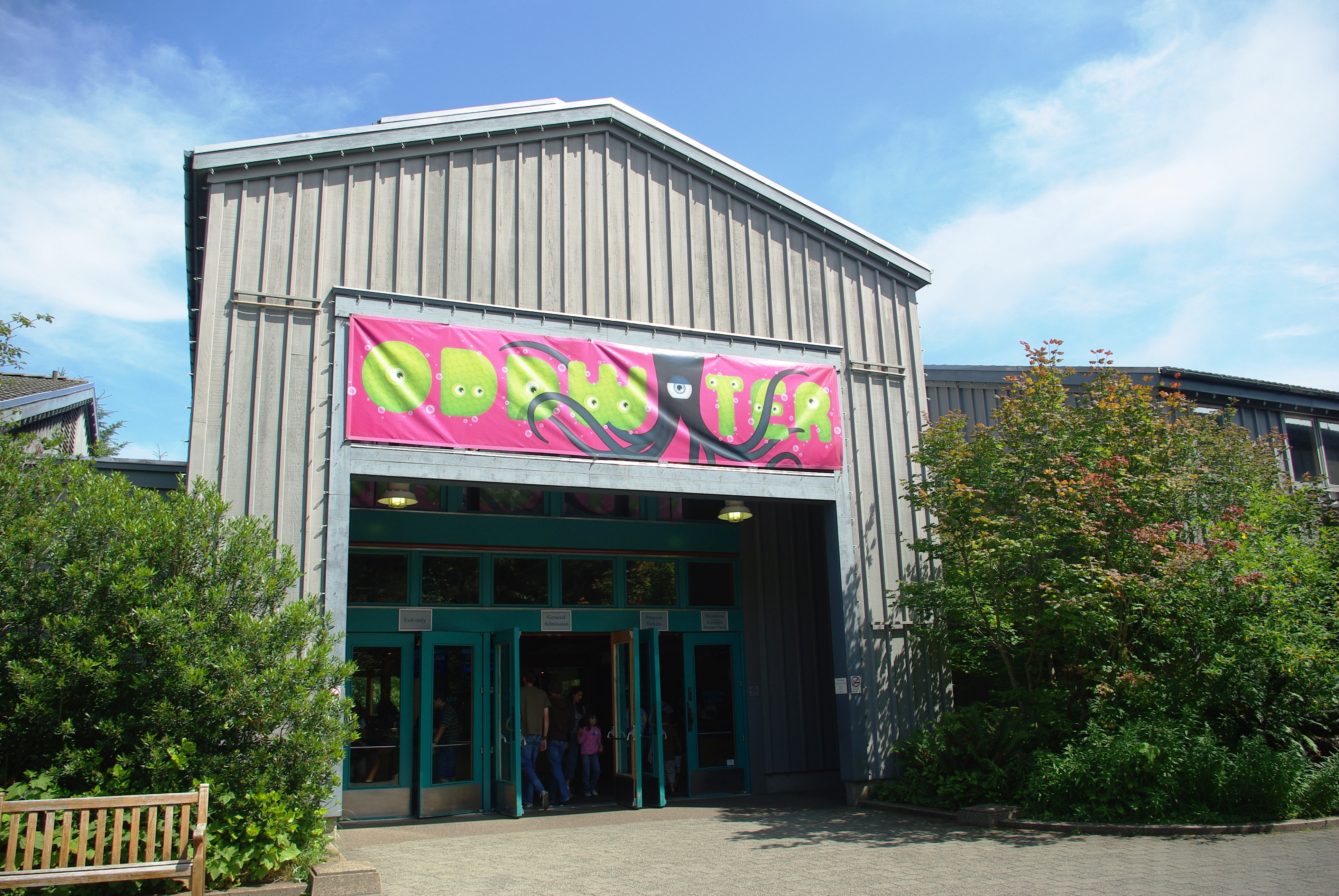 Oregon Coast Aquarium main building entrance. The banner reads Oddwater, a temporary exhibit (mid-2008 to late 2009).[1][2]